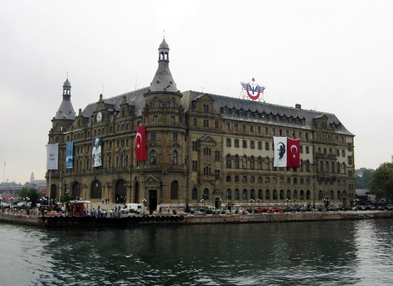 Haydarpasha railway station, Istanbal